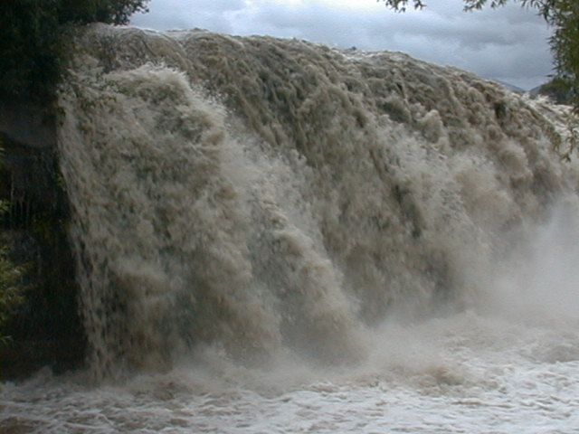 Maruia Falls, Tasman District, New Zealand